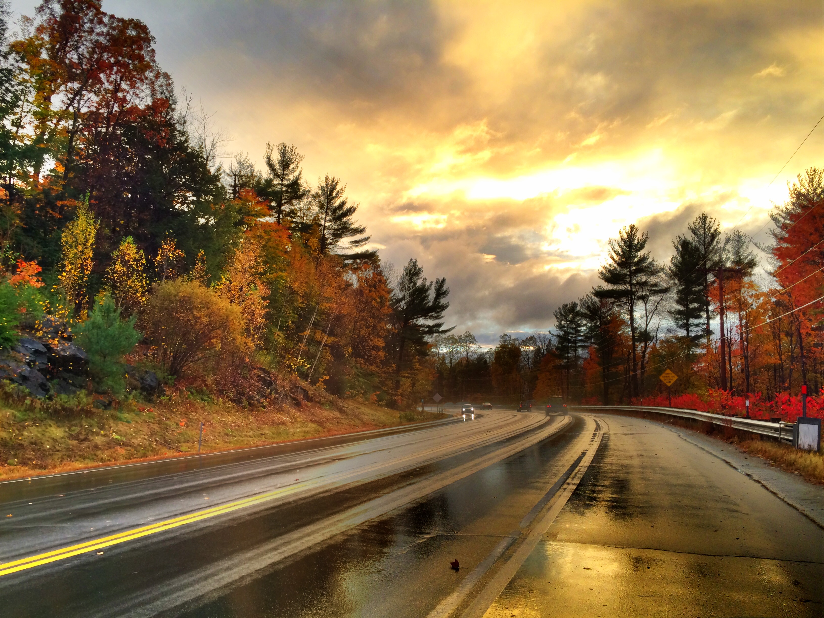 Tonight's sunset was pretty fantastic.